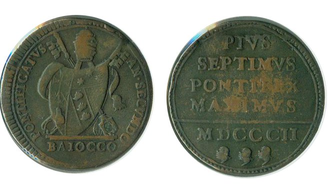 1 Baiocco 1802 IIR Metal: Copper Ruler : Pius VII